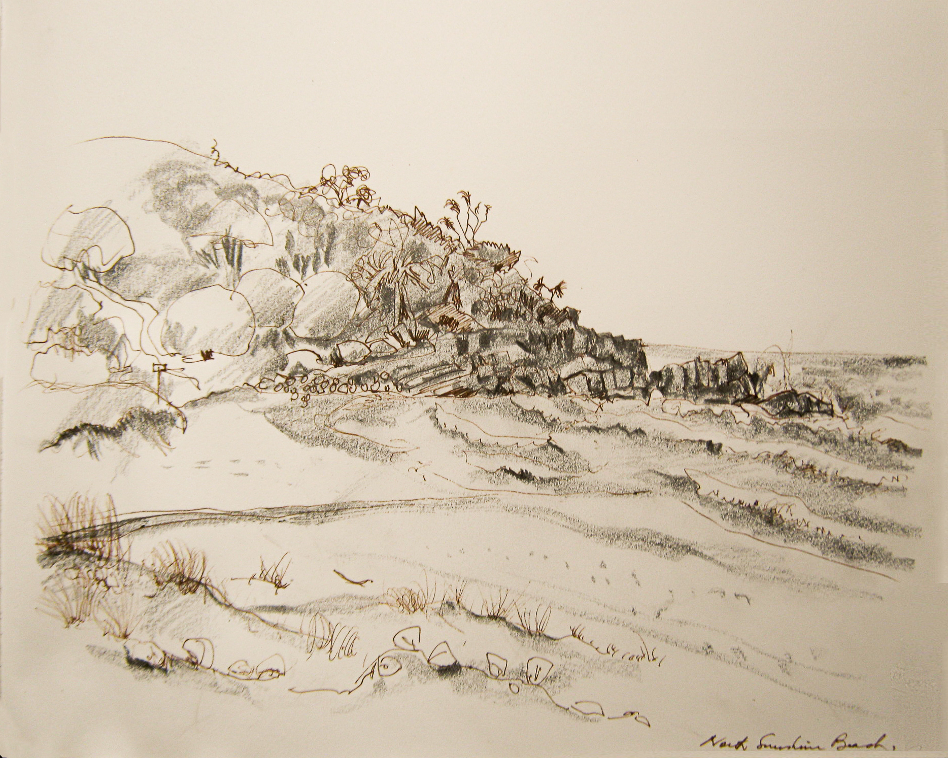 Ink and crayon drawing North Sunshine Beach by Ian Sprague 1992; photographed in a private collection at Elwood Victoria